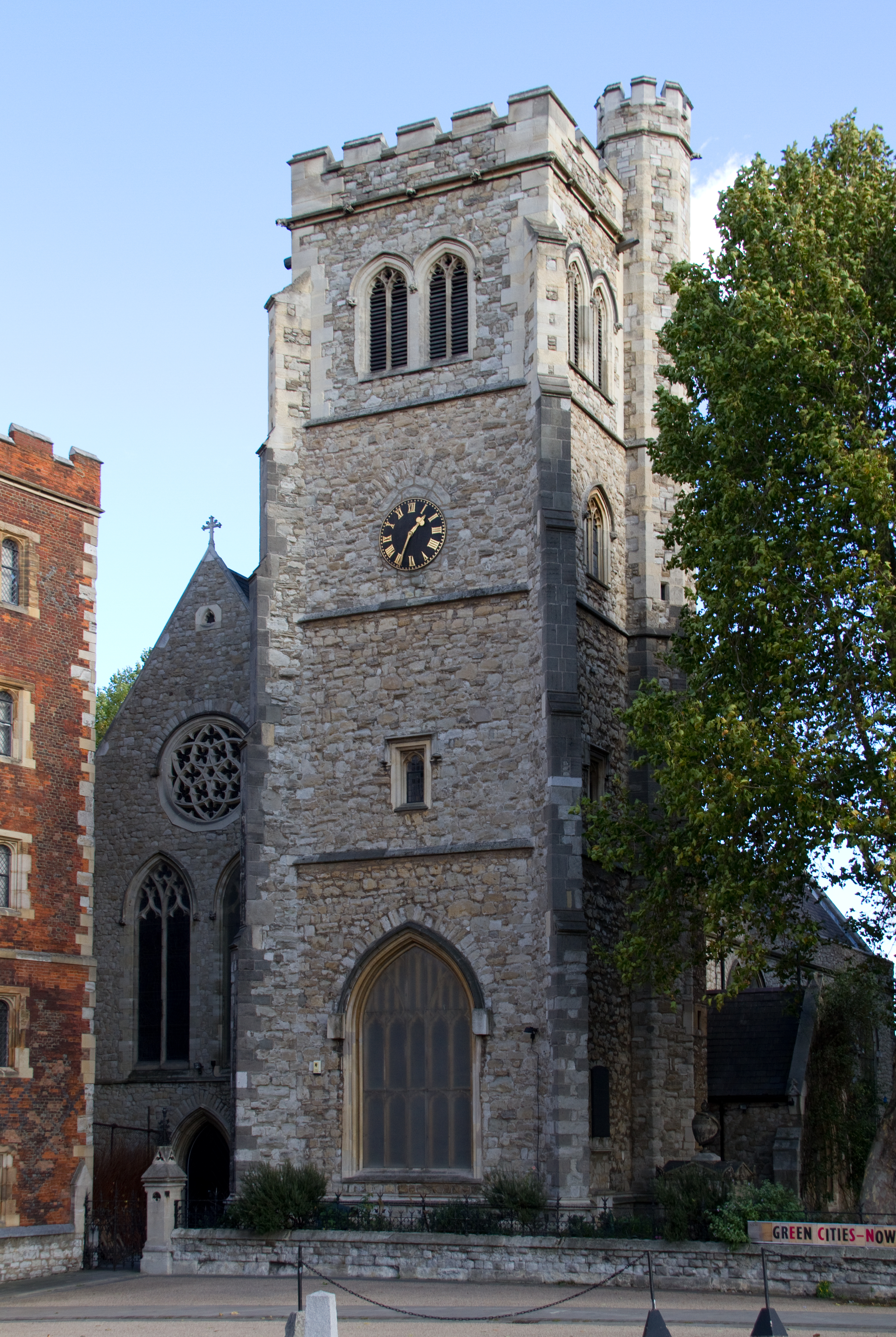 The former parish church of St Mary-at-Lambeth, London, seen from the west